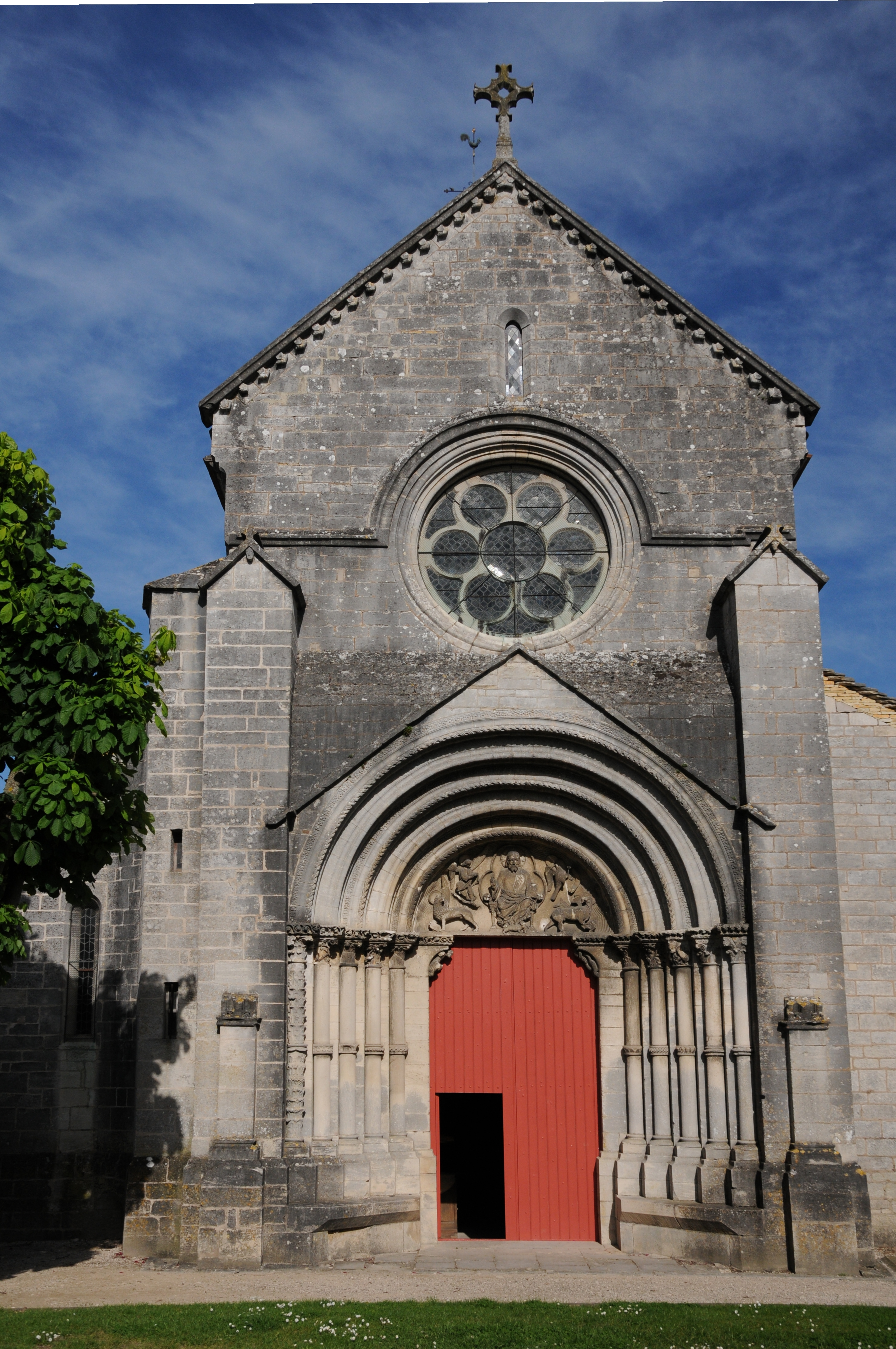 The church Saint Florent et Saint Honoré, Til-Châtel, Burgundy, France